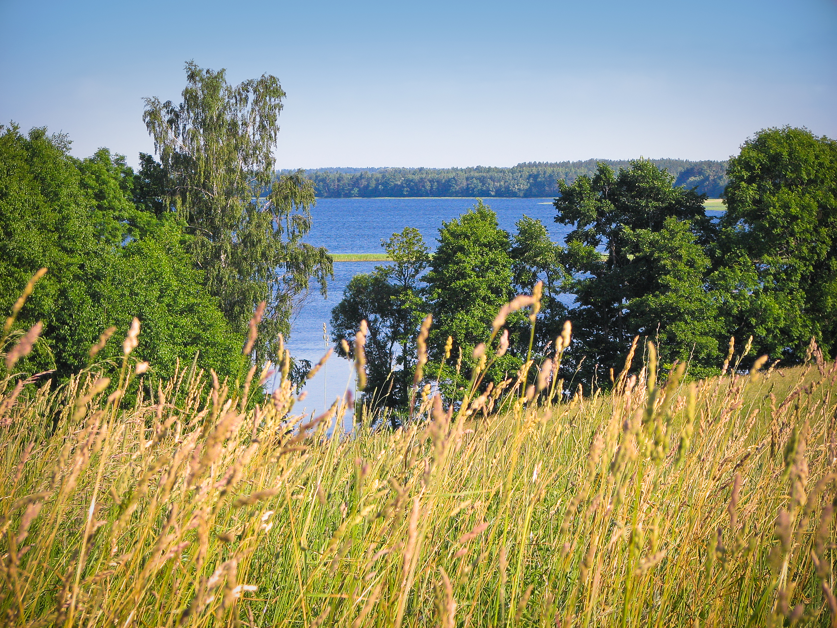 Rychy Lake, Braslaŭ District, Belarus